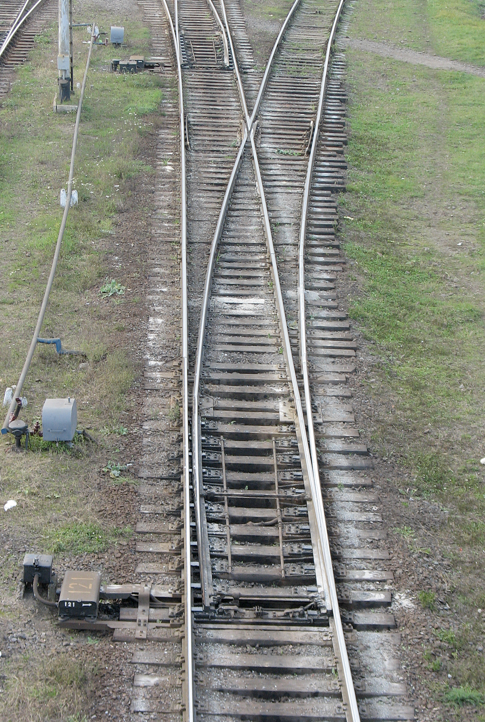 Rail switch, Shepetivka station